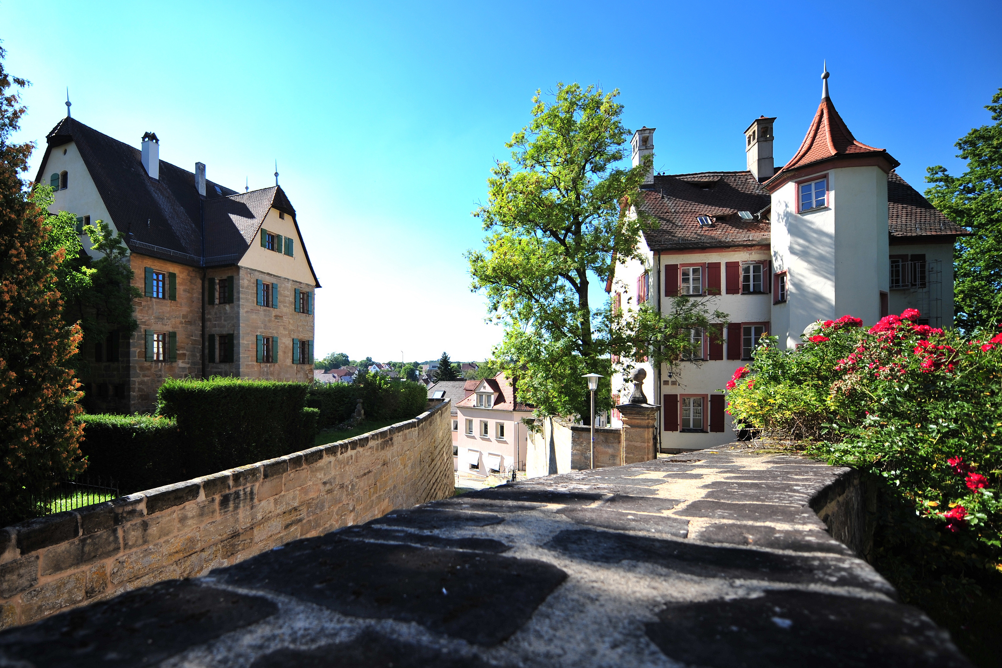 Heroldsberg: Grünes Schloss, Weißes Schloss This is a photograph of an architectural monument. This is a photograph of an architectural monument.